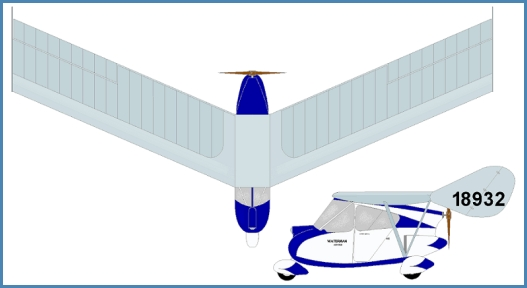 Waterman Aerobile 1937